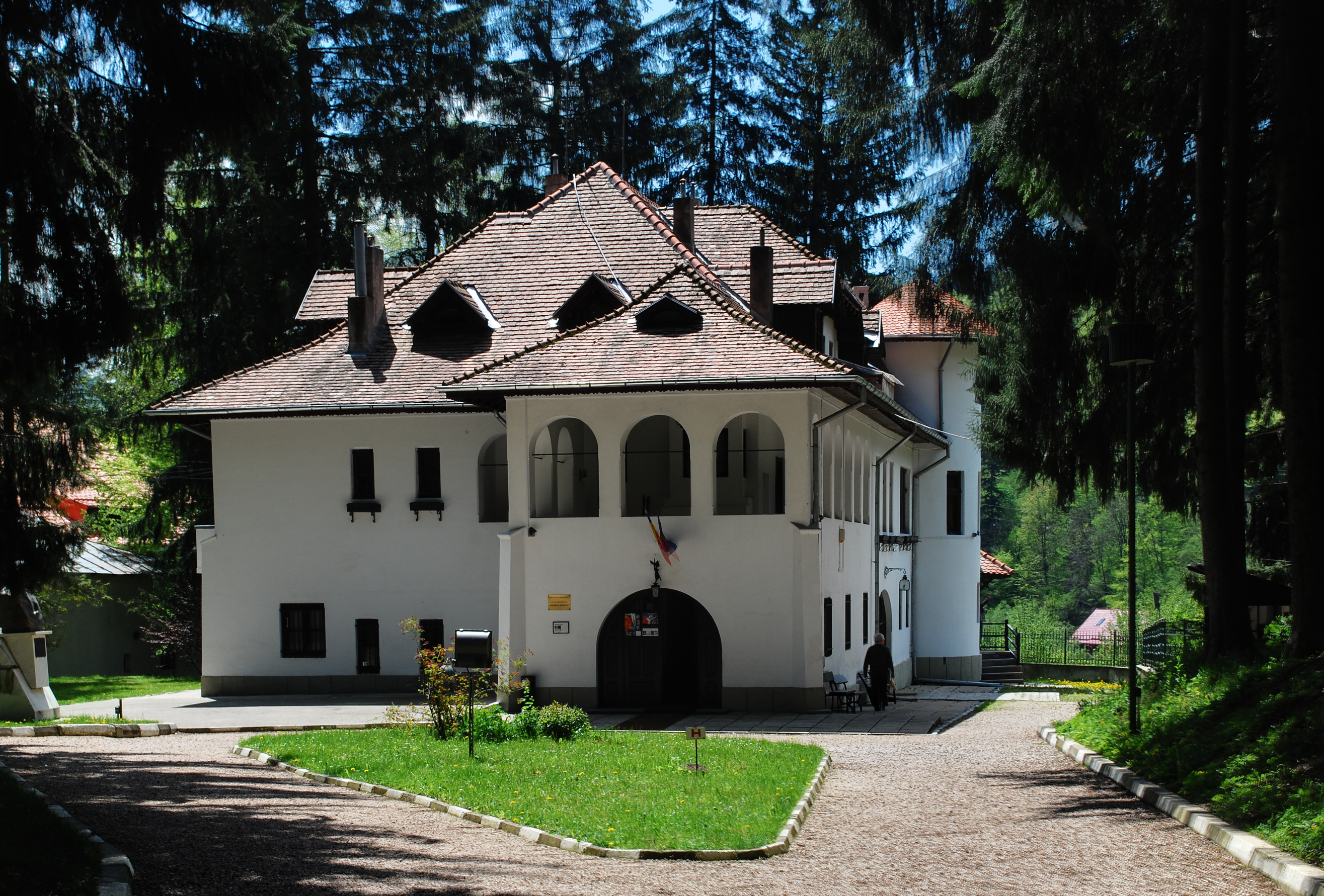 George Enescu memorial house in Sinaia, Prahova County, RomaniaRomână: Casa memorială George Enescu din Sinaia, județul Prahova, România